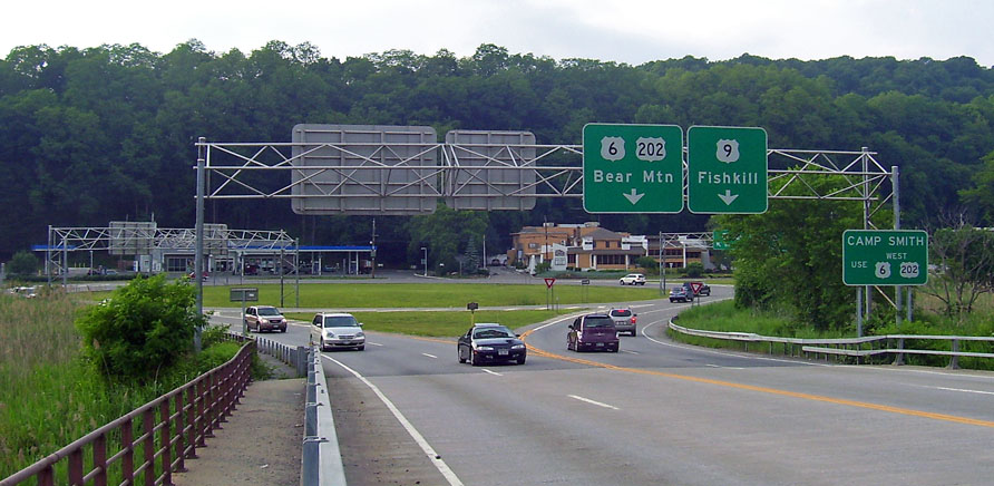 Photographed 2007-06-09 by Daniel Case from the middle of the Jan Peeck Bridge